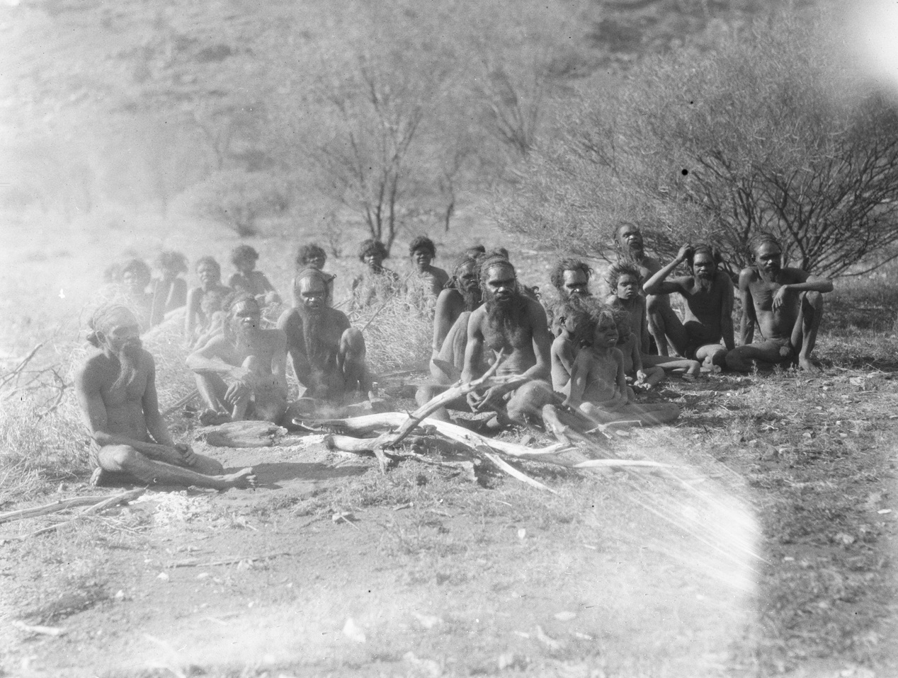 Basedow photographed this group of people at Mount Currie, to the north-west of the Olgas (Kuta Tjuta), in 1926. On this trip Basedow's party were travelling by camel. The two groups camped near one another and the next day Basedow took this photograph. Two signs indicate that it was probably taken at the Aboriginal camp: the remains of a fire, and the row of bushes between the men and women, which appears to be a (constructed) windbreak.